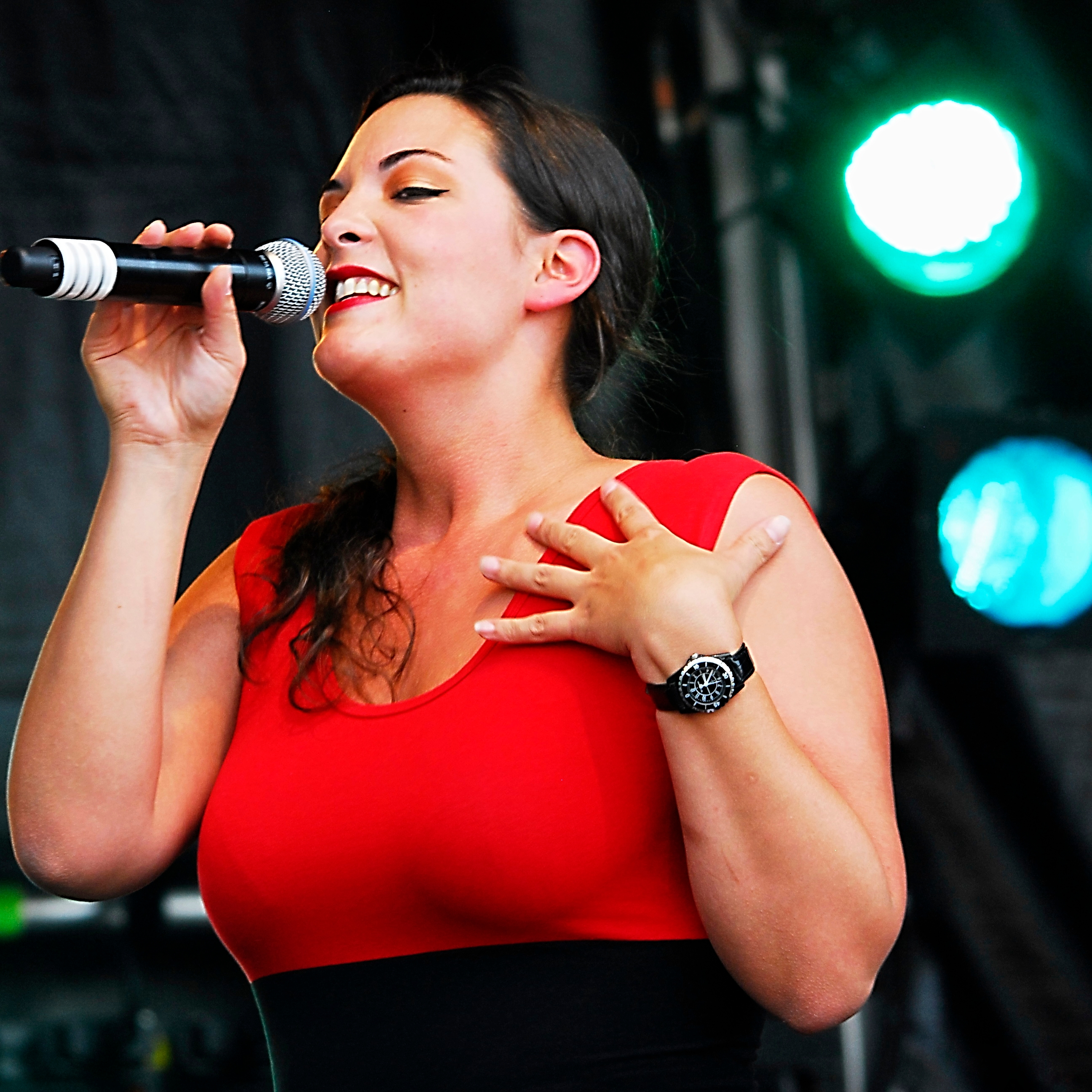 Dutch jazz singer Caro Emerald live at the Indian Summer Festival at Zoetermeer, Netherlands.